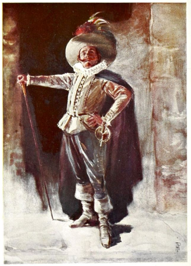 Benoît-Constant Coquelin dressed as Cyrano de Bergerac - illustration by Percy Anderson for Costume Fanciful, Historical and Theatrical, 1906